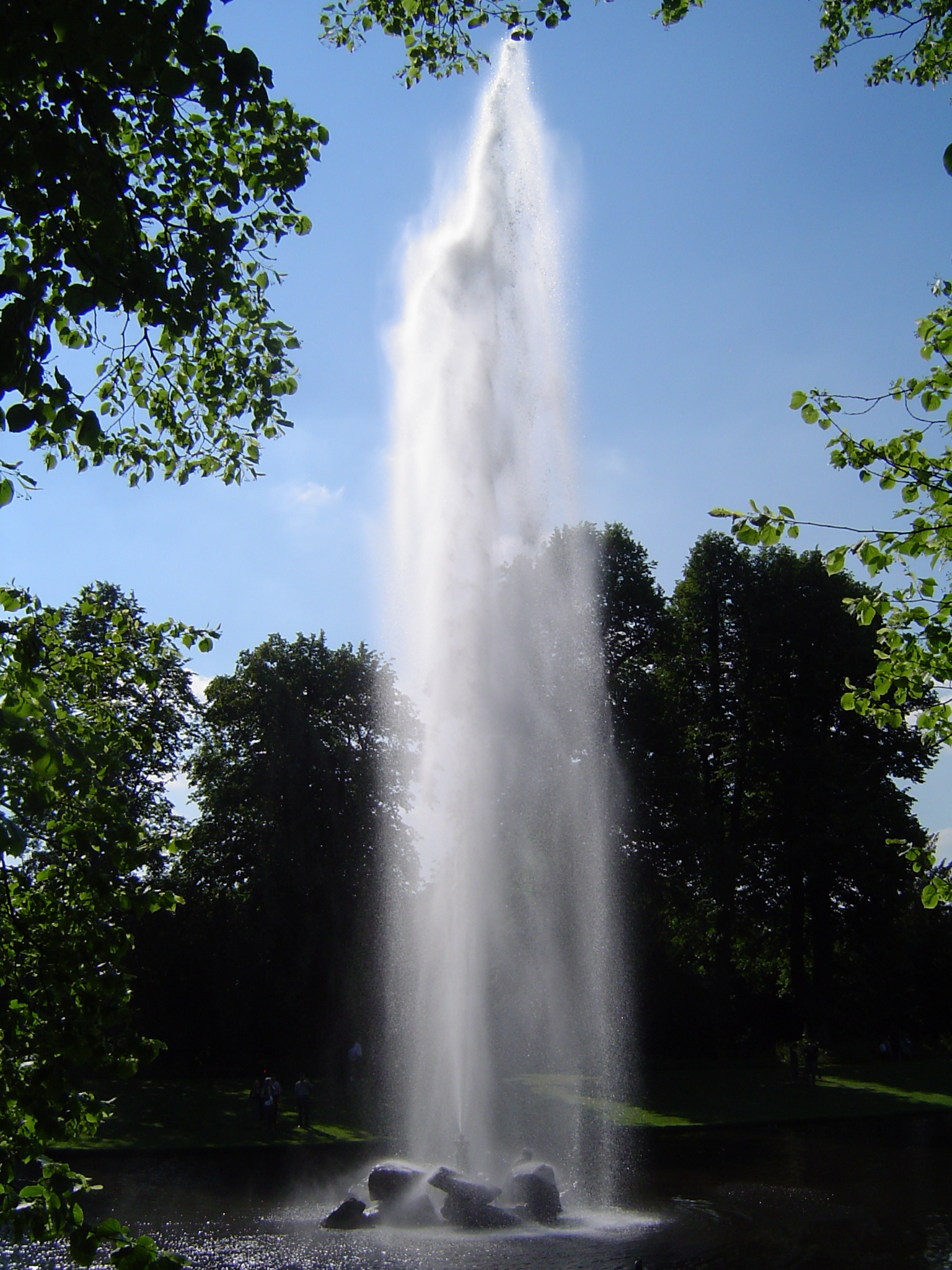 "Emperor Fountain" at Chatsworth House. The fountain is fed by a pressure created by water "dropping 122m, through a 40cm iron pipe" and can jet to 90 m.